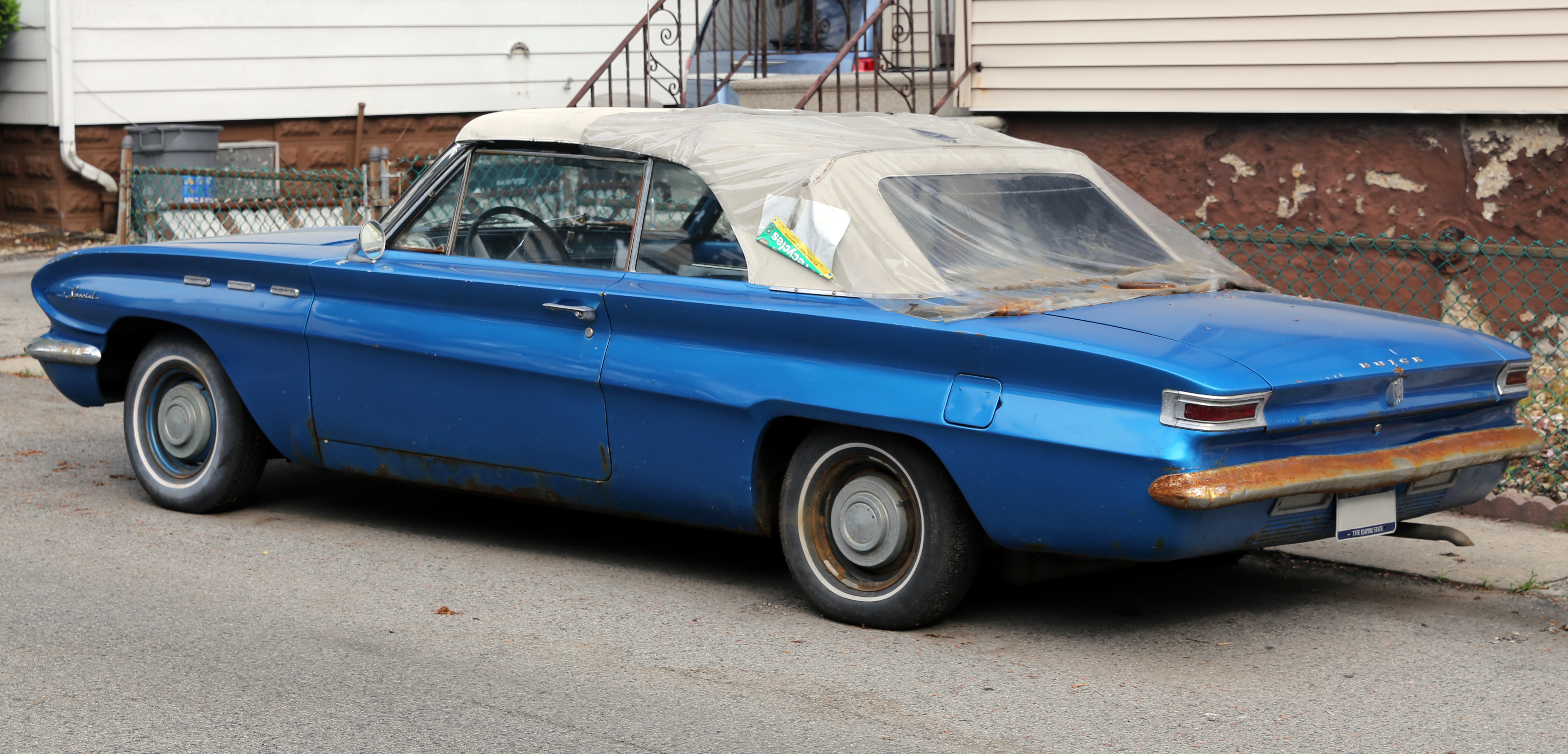 A 1962 Buick Special V6 Convertible.